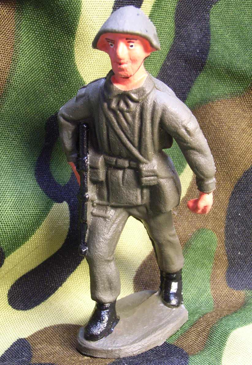 NVA Plastigfigure (height: 8cm)